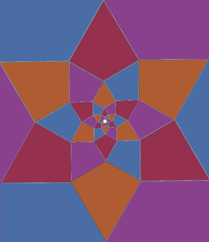 An endless tessellation with a deltoid (kite) tile, each layer is ~56% of the last (devide by the square root of 3). the result is a 6 petal effect (lily), or a david's star